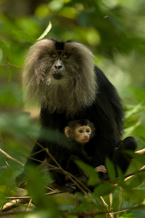 lion-tailed macaque (Macaca silenus) from Anamalais